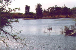 Cruz del Eje